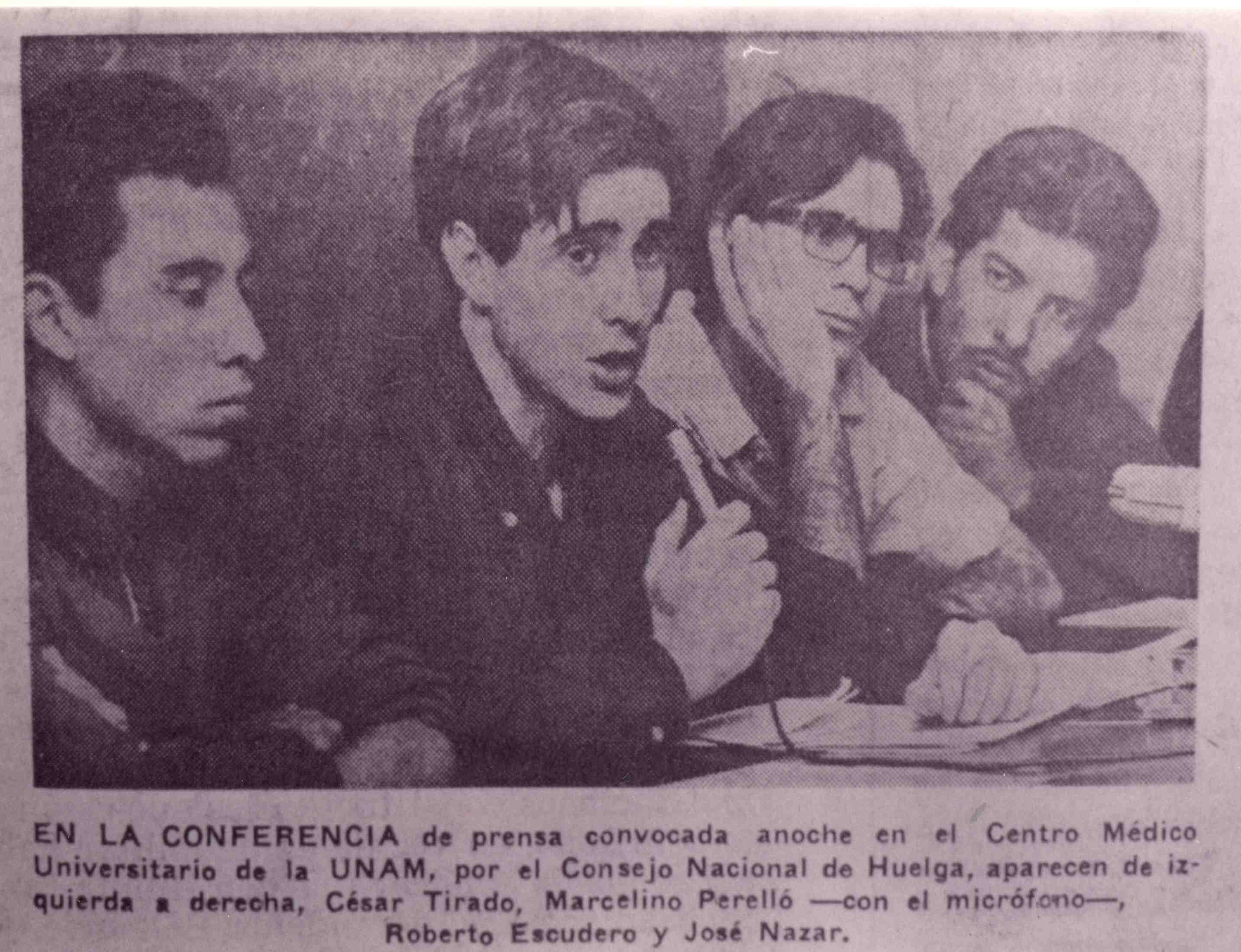 Marcelino Perelló at a Press Conference. Mexico, october the 6th, 1968.